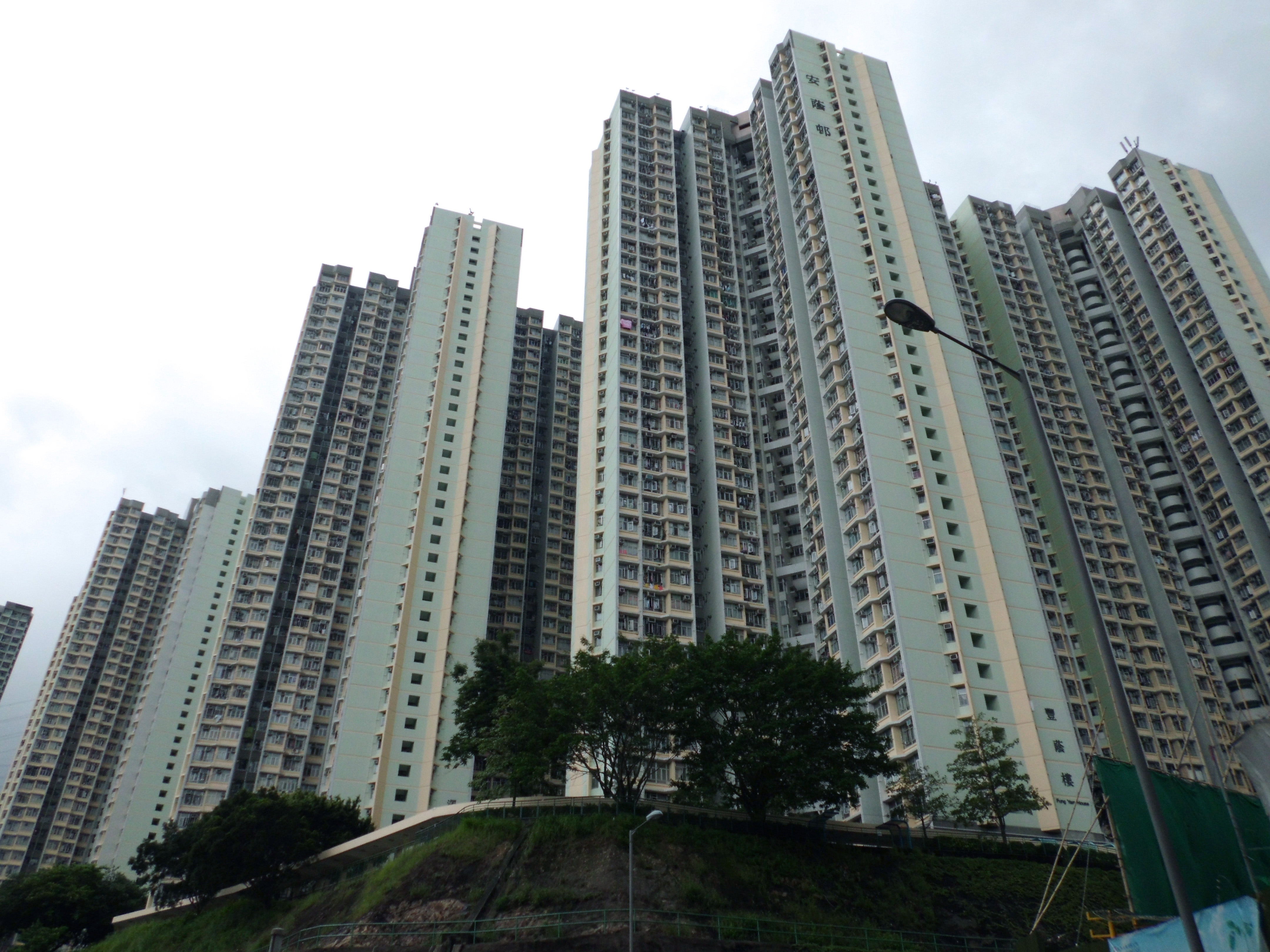 The On Yam Estate appearance after whitewash of external walls